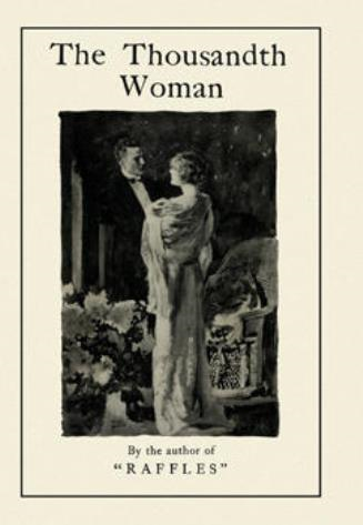 1913 book The Thousandth Woman by E.W. Hornung